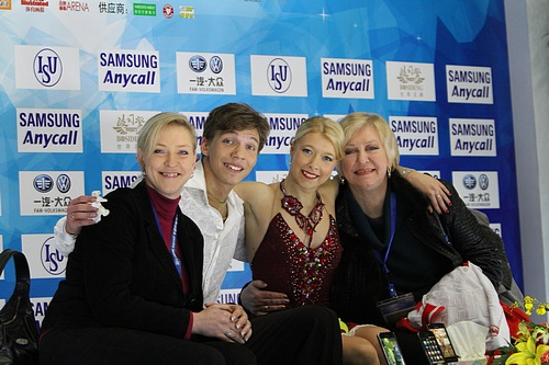 Ekaterina Bobrova and Dmitri Soloviev with their coaches Elena Kustarova (far left) and Svetlana Alexeeva (extreme right) at the Cup of China 2010